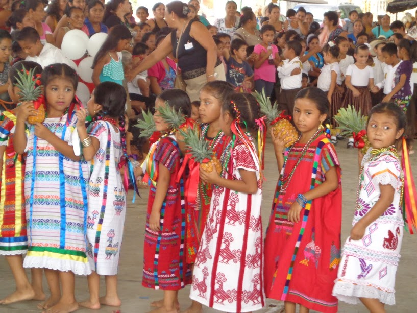 Uxpanapa Veracruz people and region